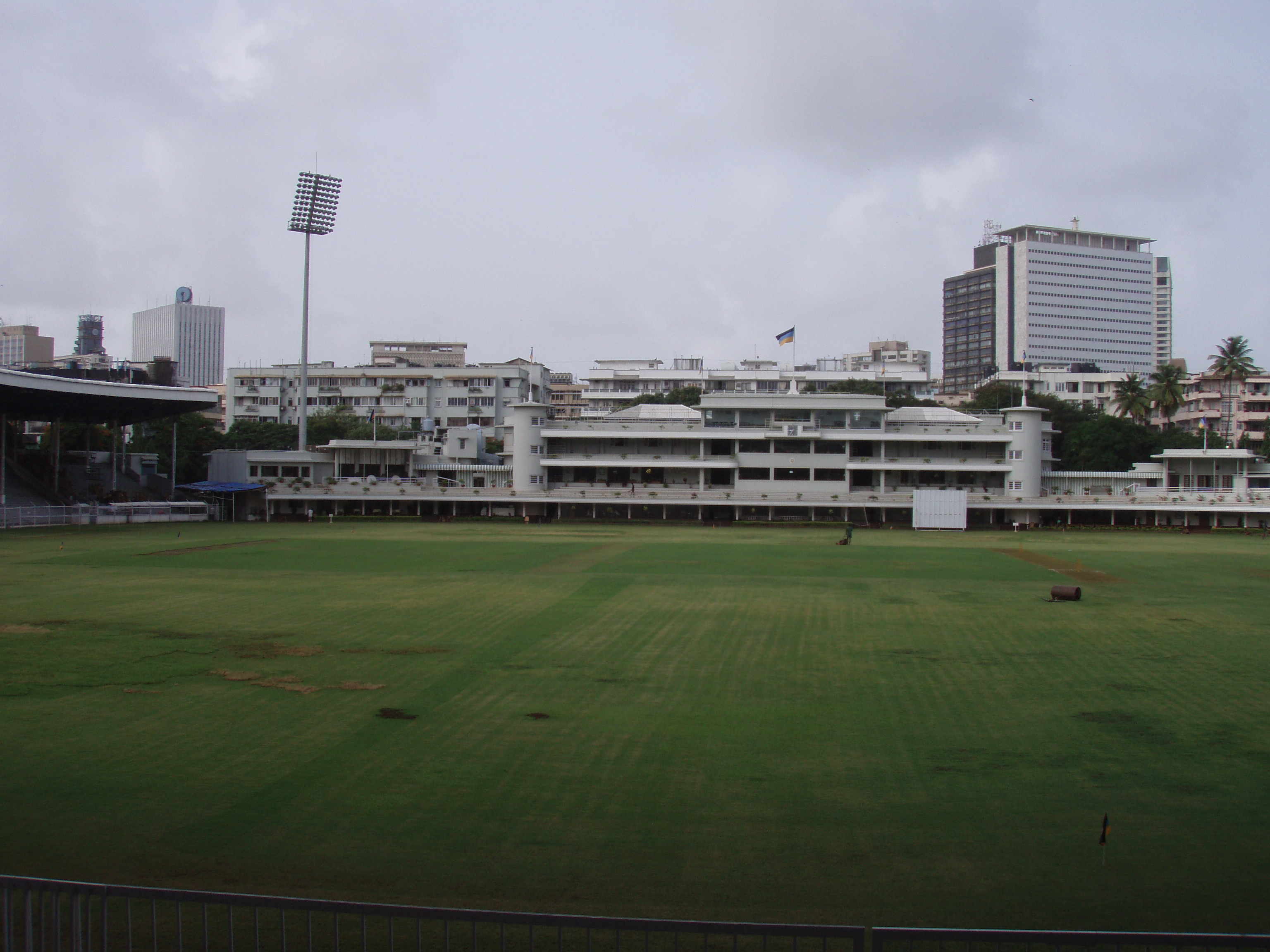 View of the Club House and Pavilion at Brabourne Stadium. One can also see the Members Childrens enclosure at the corner of the East Stand.